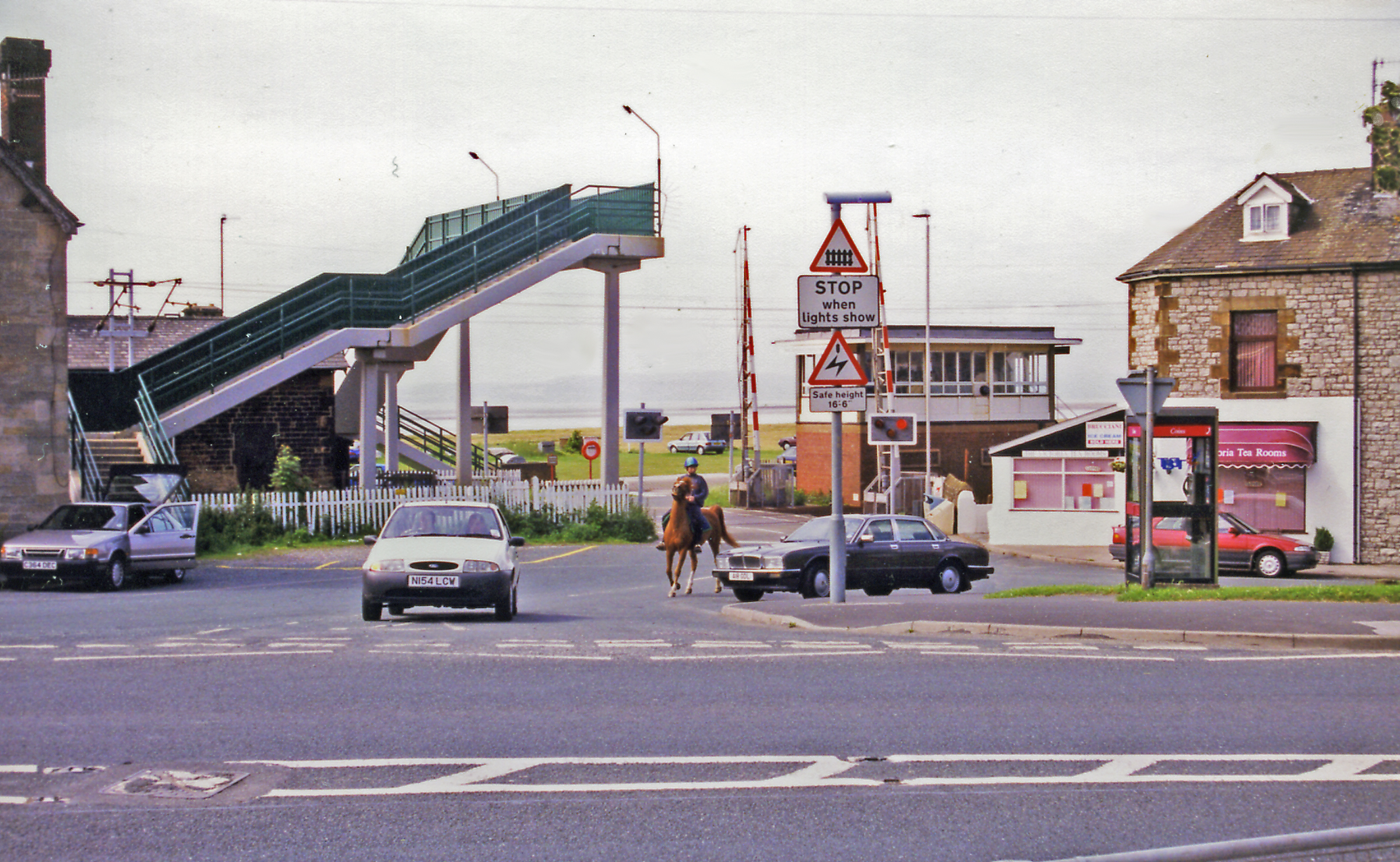 Hest Bank: level-crossing to the beach at site of station on West Coast Main Line, 1998. View westward, across the ex-LNWR WCML towards Morecambe Bay. Both modern motor and primeval modes of transport are evident. The station, closed 3/2/69, had been to the left, just a footbridge being left - over the high-speed railway, but not the busy A5105 road - for the safety of pedestrians. Note also the surviving signalbox - probably out of use by then